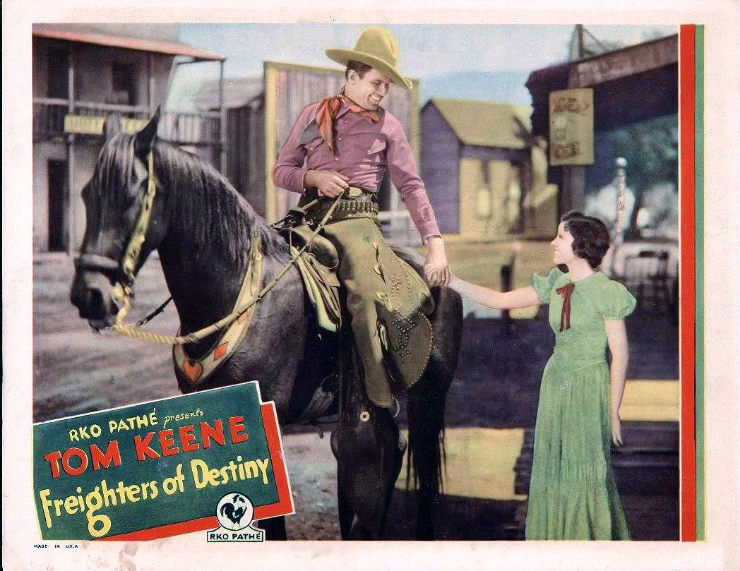 Lobby card for the American western film Freighters of Destiny (1931). The item has no copyright markings on it as can be seen in the links above. At bottom left is Made in USA.